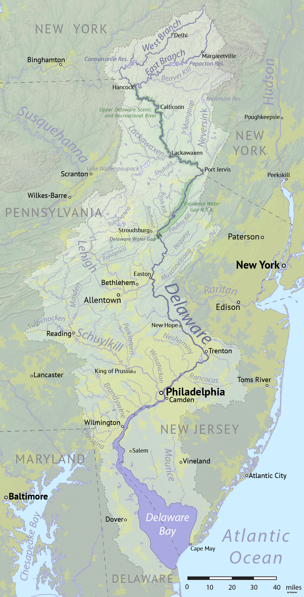 A map of the Delaware River drainage basin, showing tributaries and major cities/towns. Made using USGS National Map data.